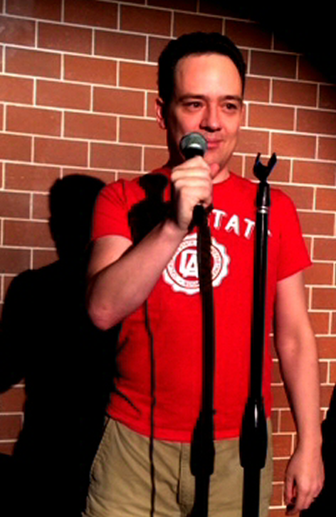 Jo Luijten at the Haha Comedy Cafe in North Hollywood